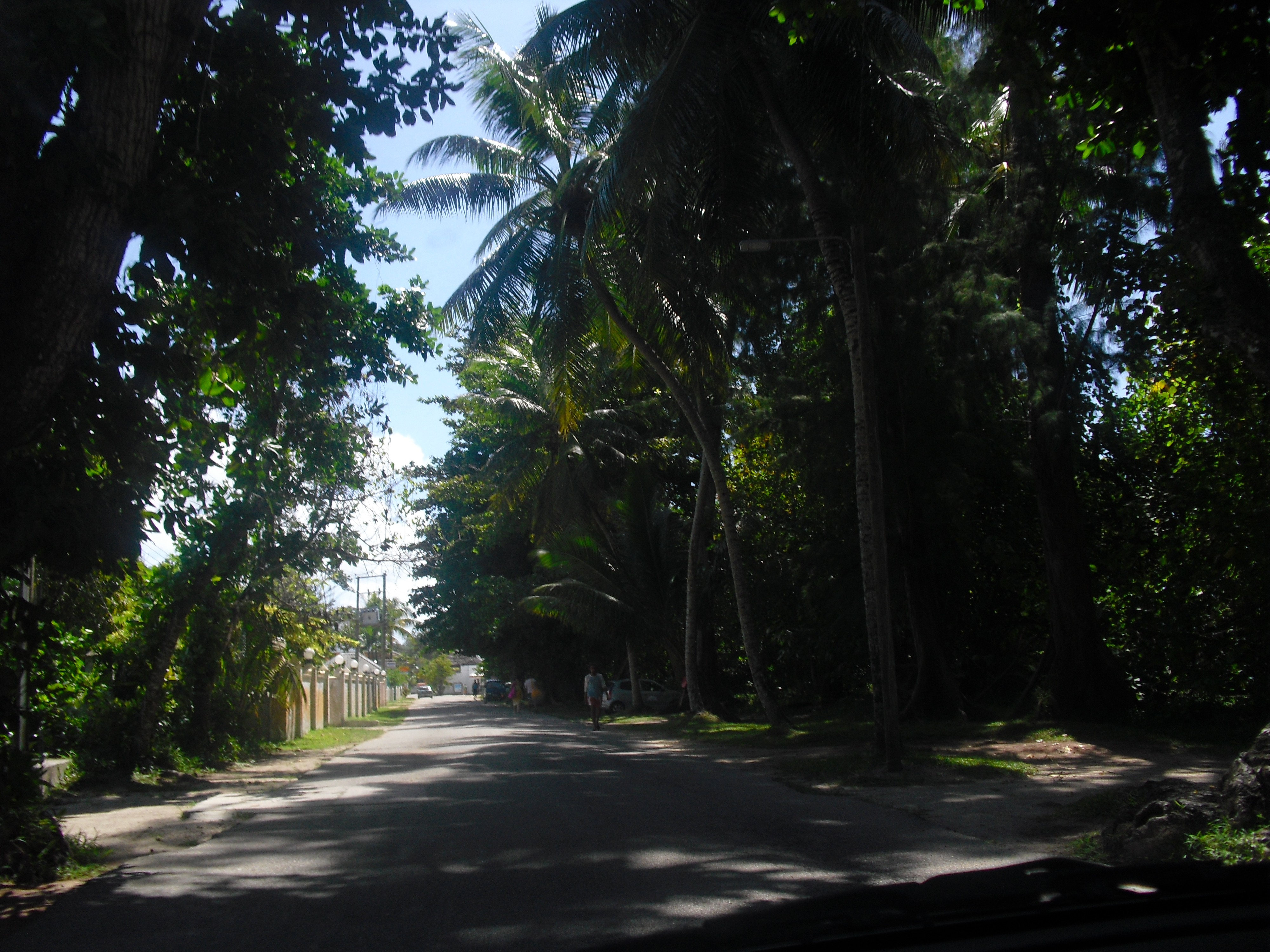 Main Street Anse Volbert, Island of Praslin, Seychelles